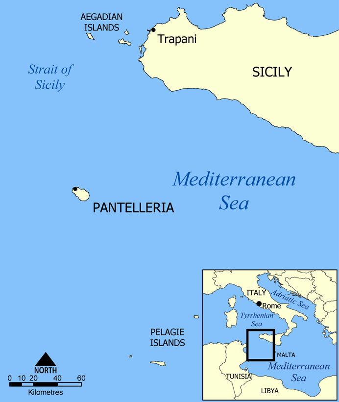 A map showing the location of the island Pantelleria in the Mediterranean Sea. Blank version available at Image:Pantelleria blank map.png. Created by NormanEinstein, August 23, 2005.